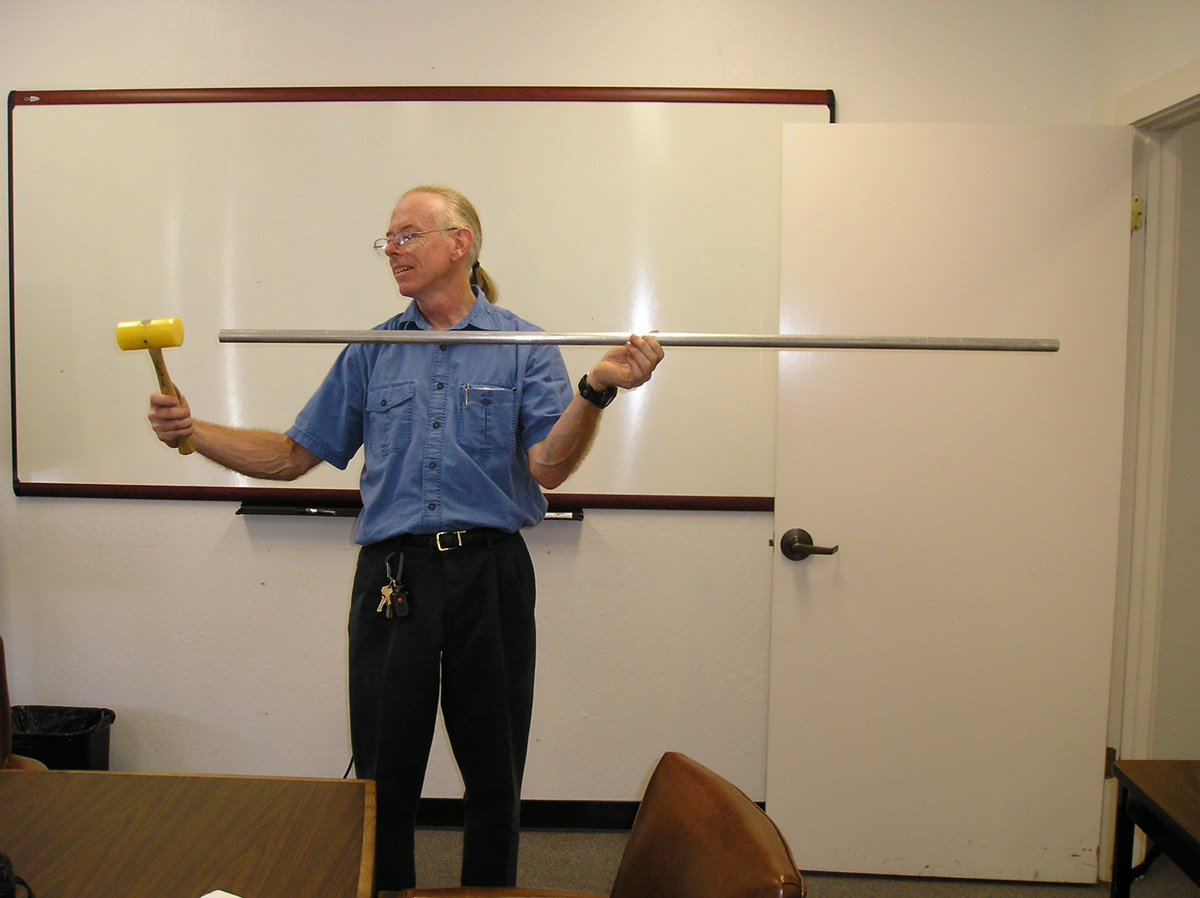 Ringing rod long